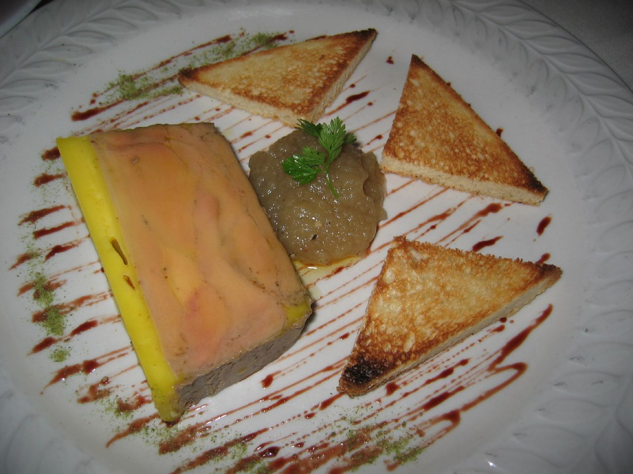 Foie Gras Terrine